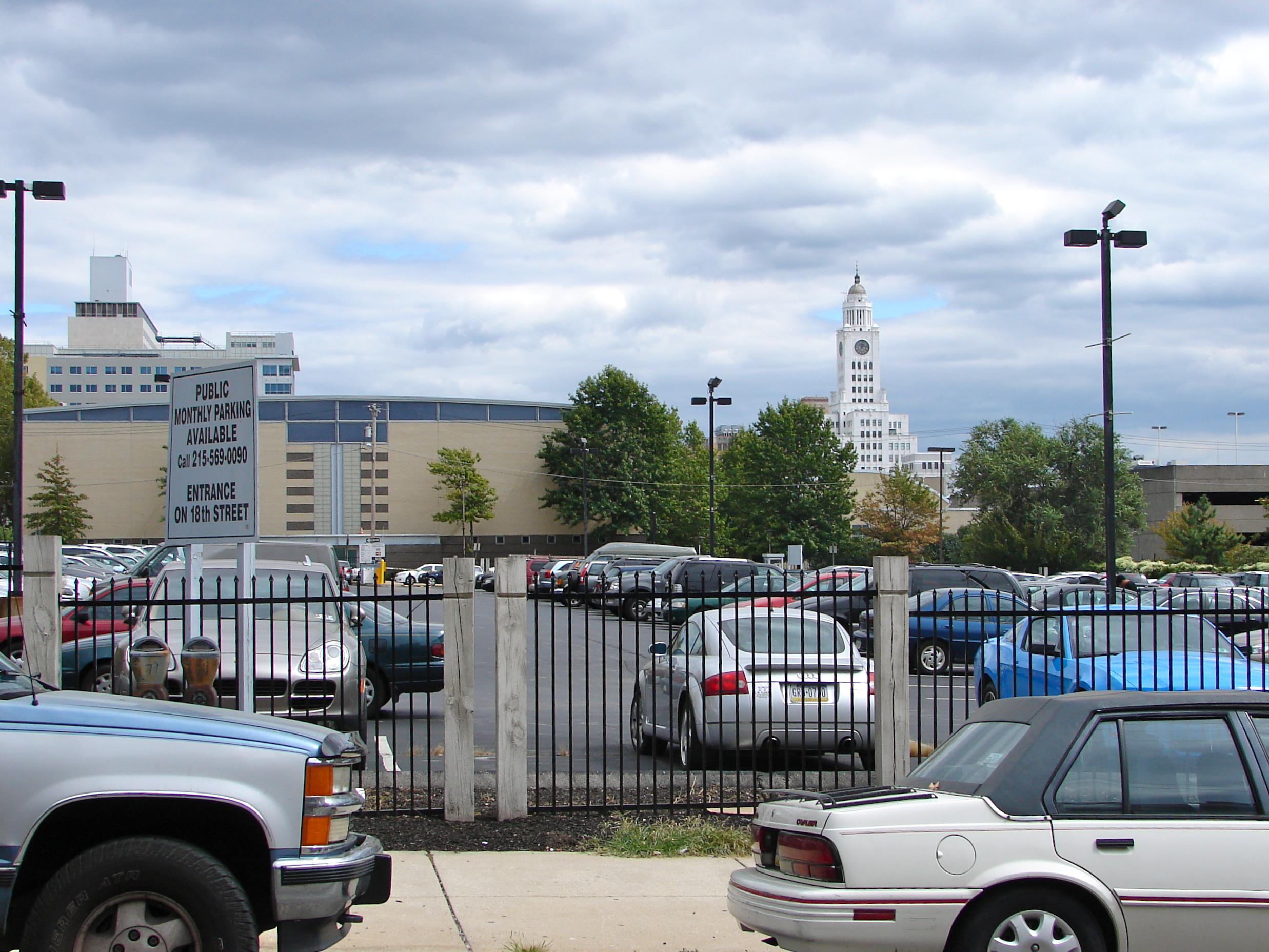 Parking lot on the site of Graham and Laird, Schober and Mitchell Factories which has been on the NRHP since July 7, 1978. Located on the east side of 19th St. between Hamilton and Buttonwood Sts. Photo is on 19th, halfway between Hamilton and Buttonwood, looking east. In the Franklintown neighborhood of North Philadelphia